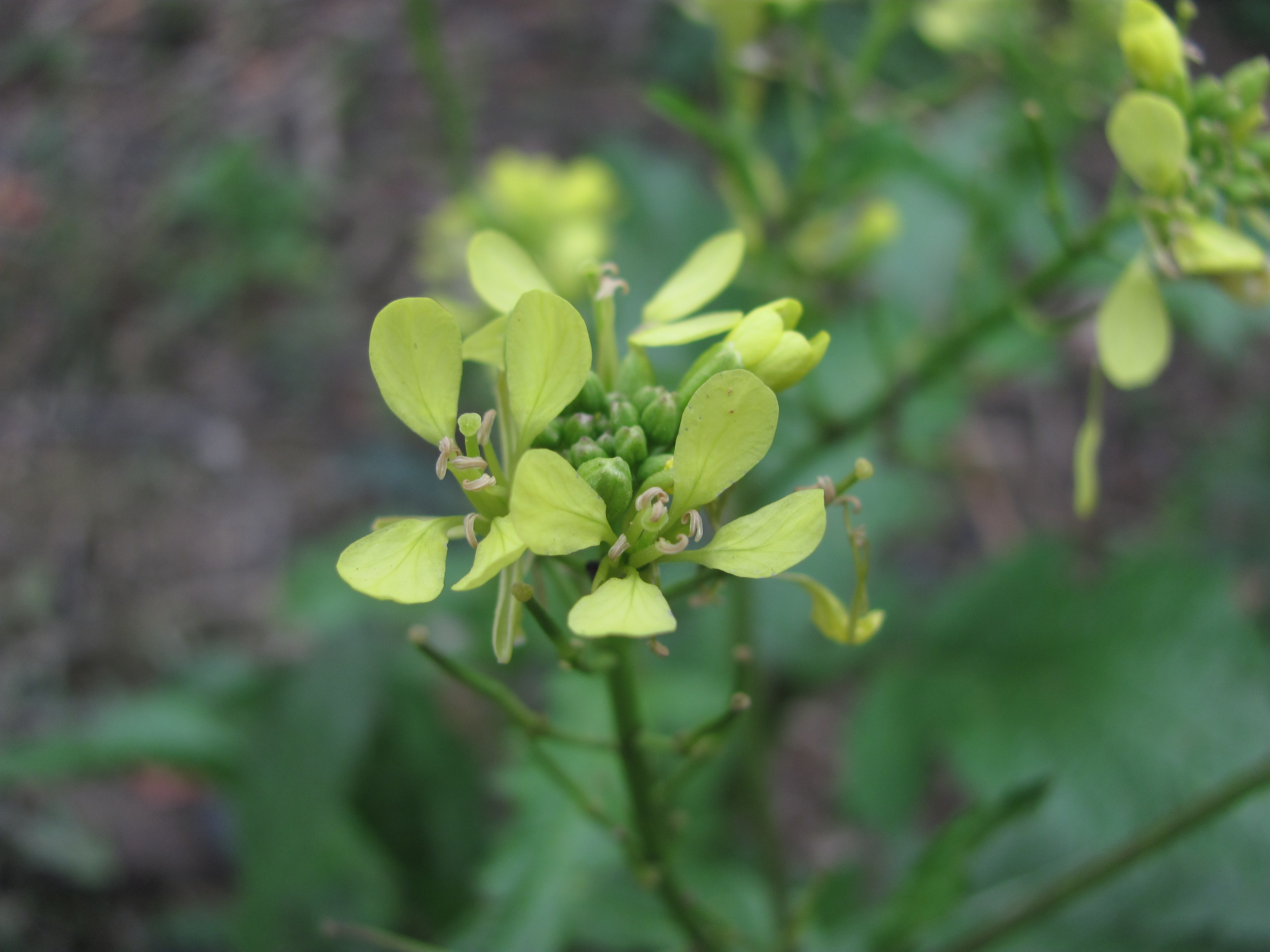 Hirschfeldia incana flowers